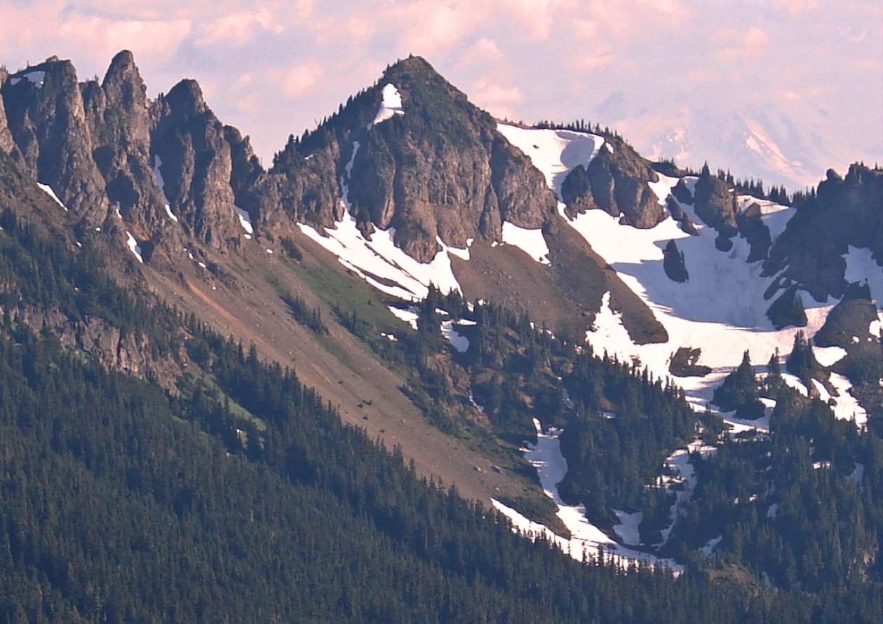 Barrier Peak at MORA